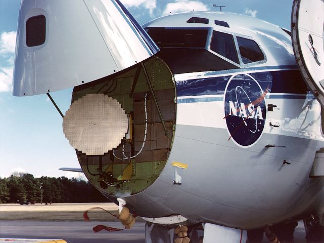 A flat plate airborne radar used in the microburst windshear detection research program was housed in the nose of the NASA 737.